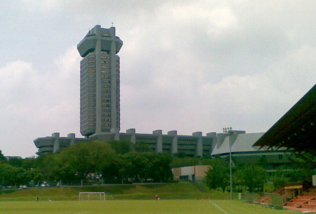 The Sultan Salahuddin Abdul Aziz Shah building which is also known as Selangor state secretariat building photographed from the SUK Sport complex.